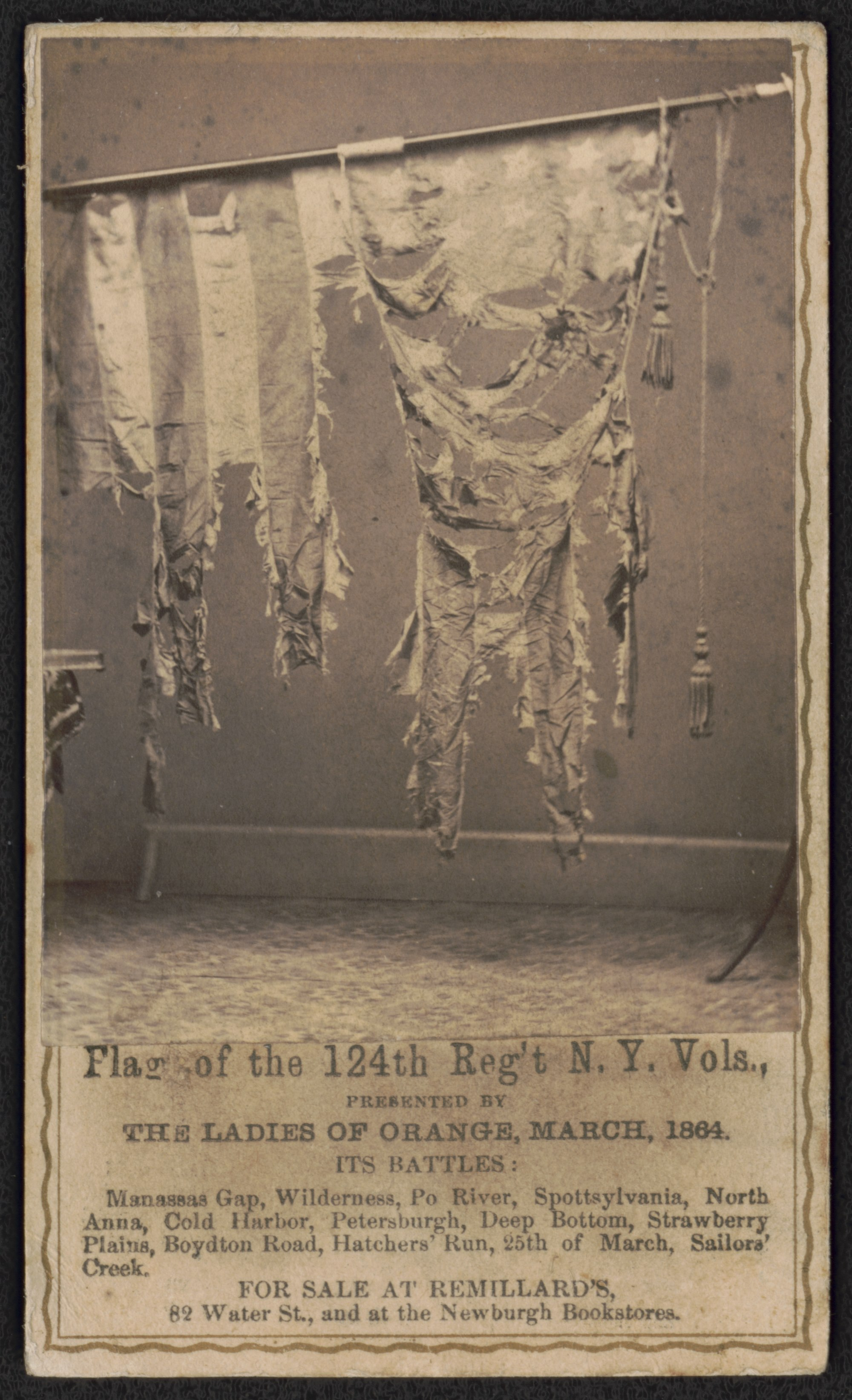 Title: Flag of the 124th Reg't N.Y. Vols. Presented by the ladies of Orange, March, 1864. Abstract/medium: 1 photograph : albumen print on card mount ; mount 11 x 6 cm (carte de visite format)